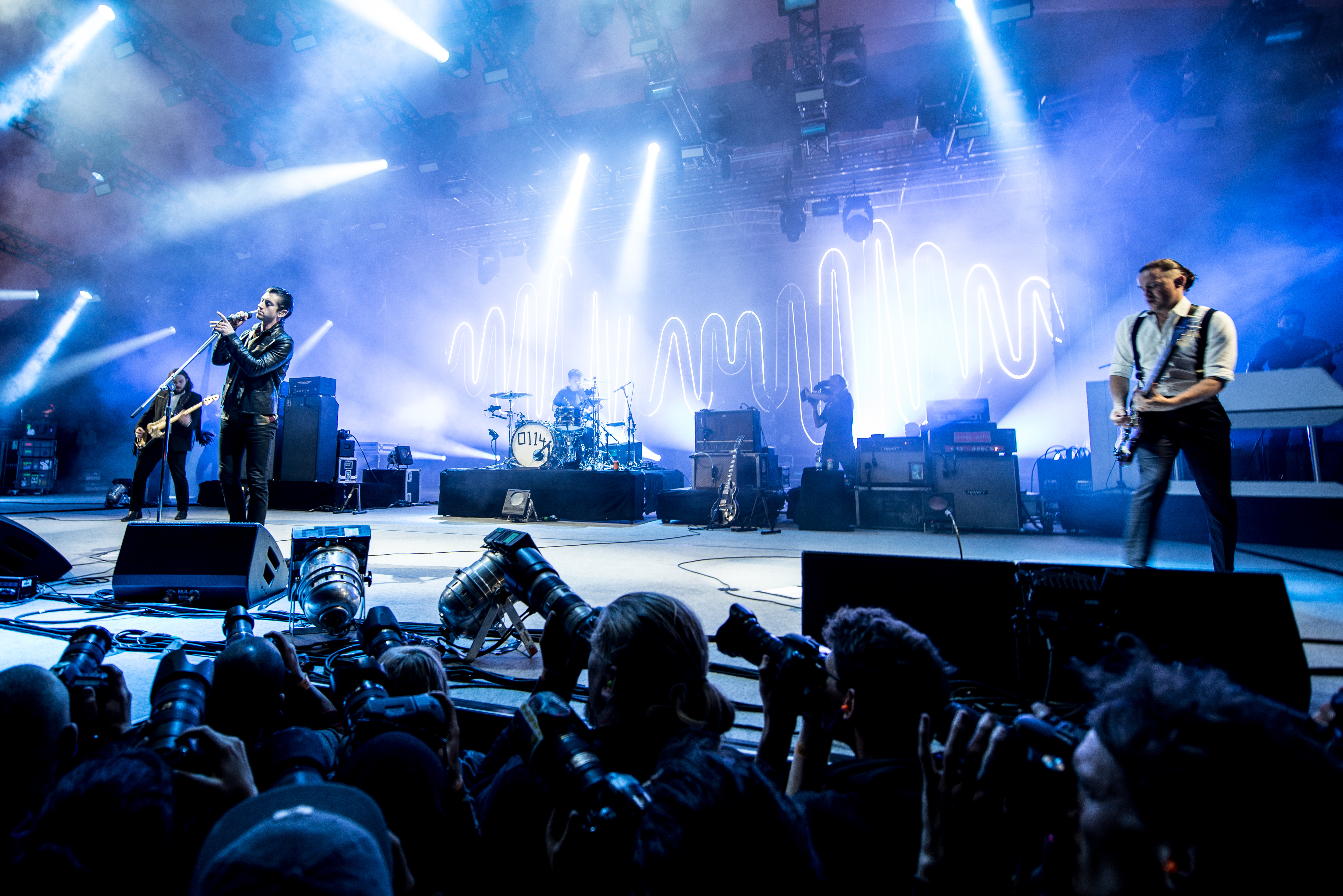 Arctic Monkeys performing on Orange Stage at Roskilde Festival 2014 in Denmark the 5th of July 2014. Photo by Bill Ebbesen.